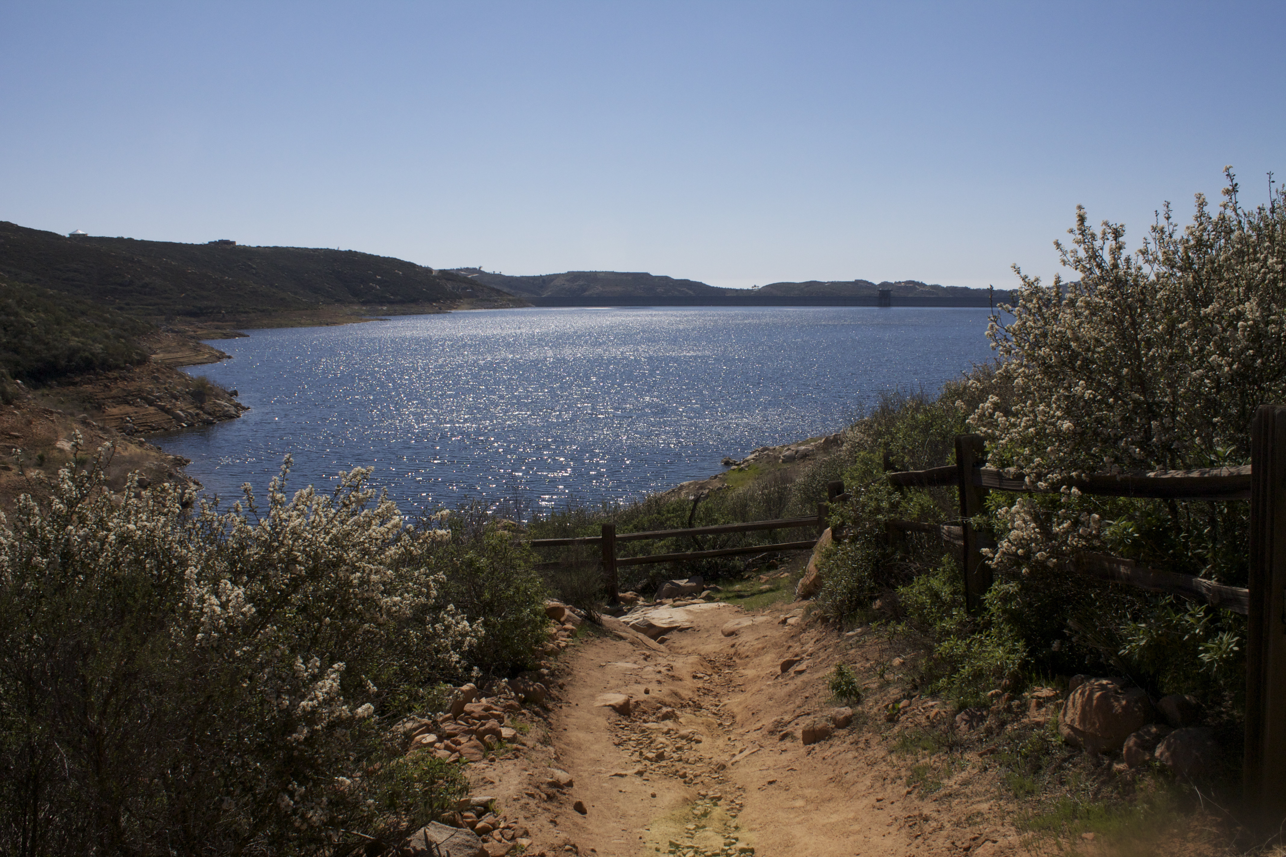 This is a photo of the Olivenhain dam & reservoir, which is located within the Elfin Forest Recreational Reserve. It is visible from part of the 11 miles of hiking that the reserve offers.